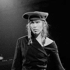 A recent photo of Annette Peacock